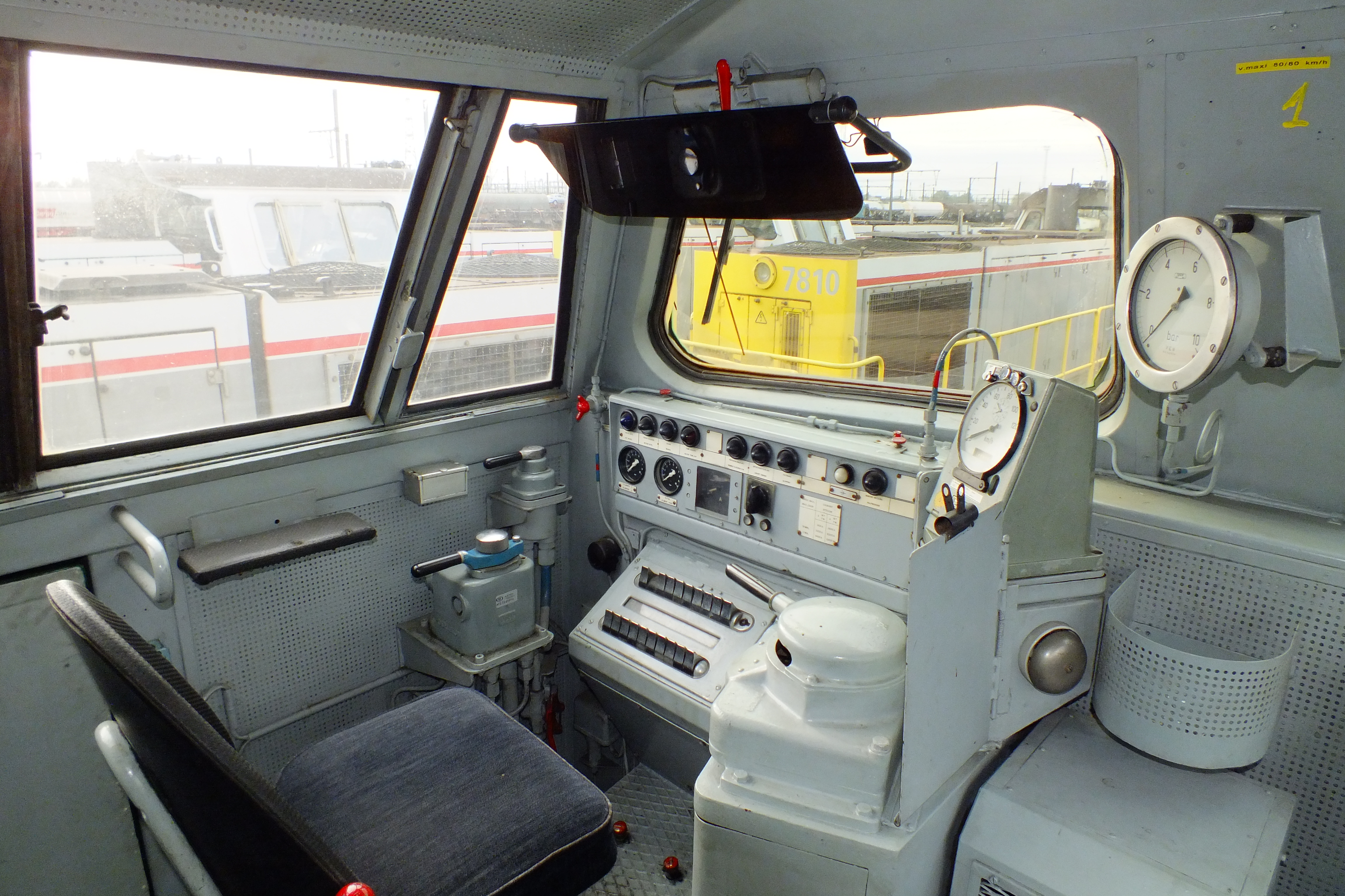 The cabin of a HLD60 locomotive